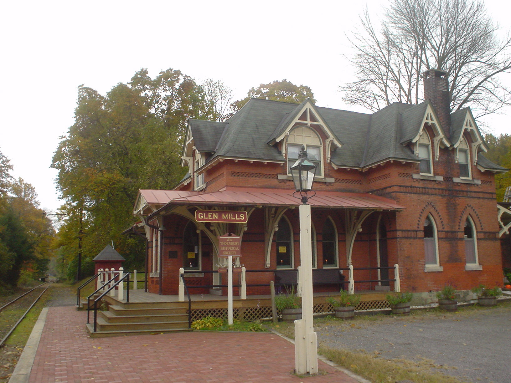 Old railway station (1860s) in Glen Mills, PA. This is my own work, and I donate it to the Public Domain.